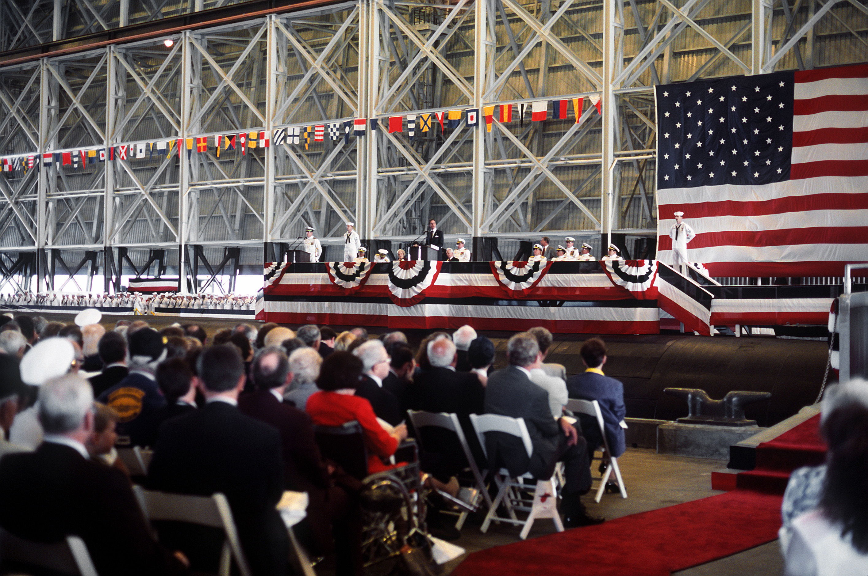 Governer Gaston Caperton of West Virginia addresses the guests assembled for the commissioning ceremony of the nuclear-powered fleet ballistic missile submarine USS WEST VIRGINIA (SSBN-736), 10/20/1990